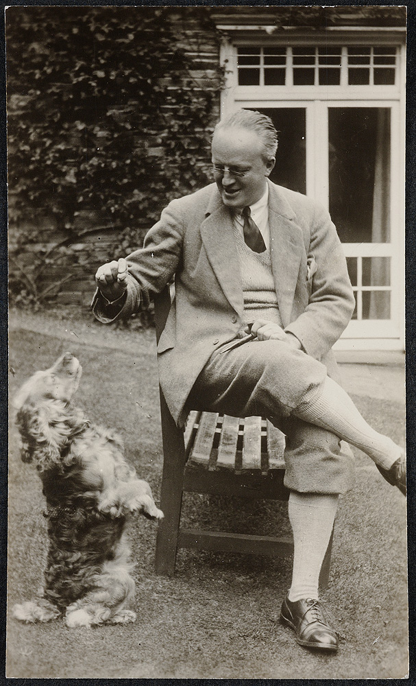 Hampshire Bookshop Collection. Hugh Walpole at Brackenburn, 1929